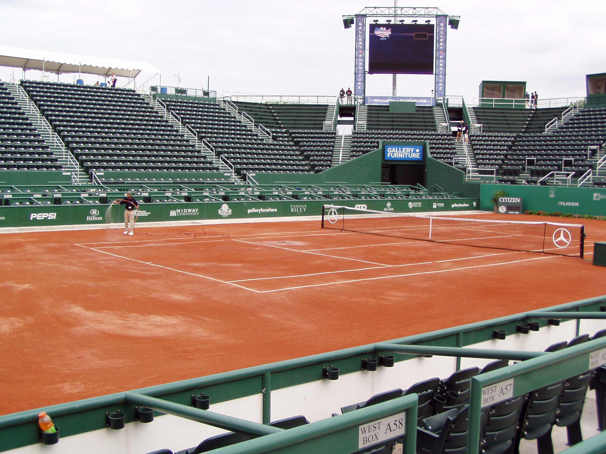 Gallery Furniture Stadium at Westside Tennis Club as prepared for the 2005 US Mens Claycourt Championship. Houston, Tx.